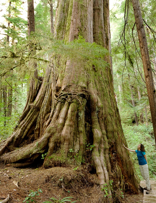 The Castle Giant growing in the un-protected Upper Walbran Valley on Vancouver Island, BC. This massive old-growth redcedar measures over 15 m in circumference and is part of the incredible "Castle Grove".